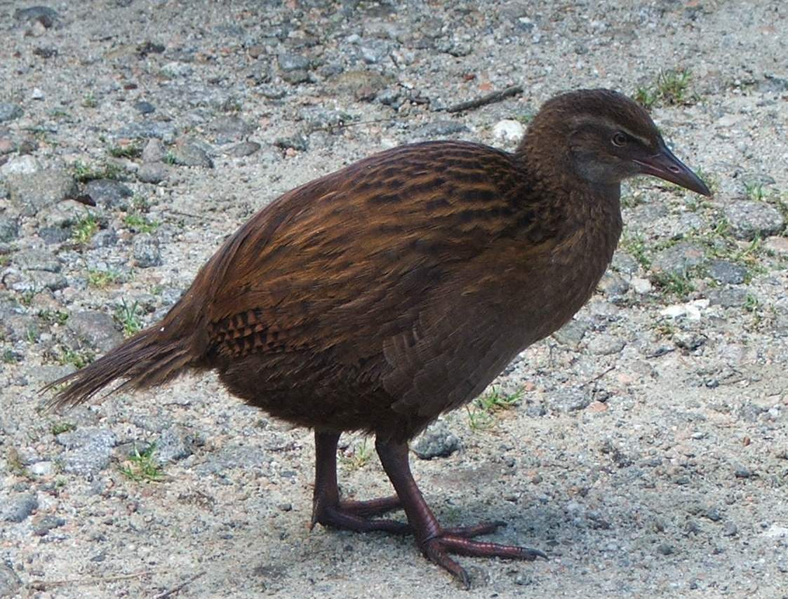 Weka photographed on the west coast of the south island, near Karamea.